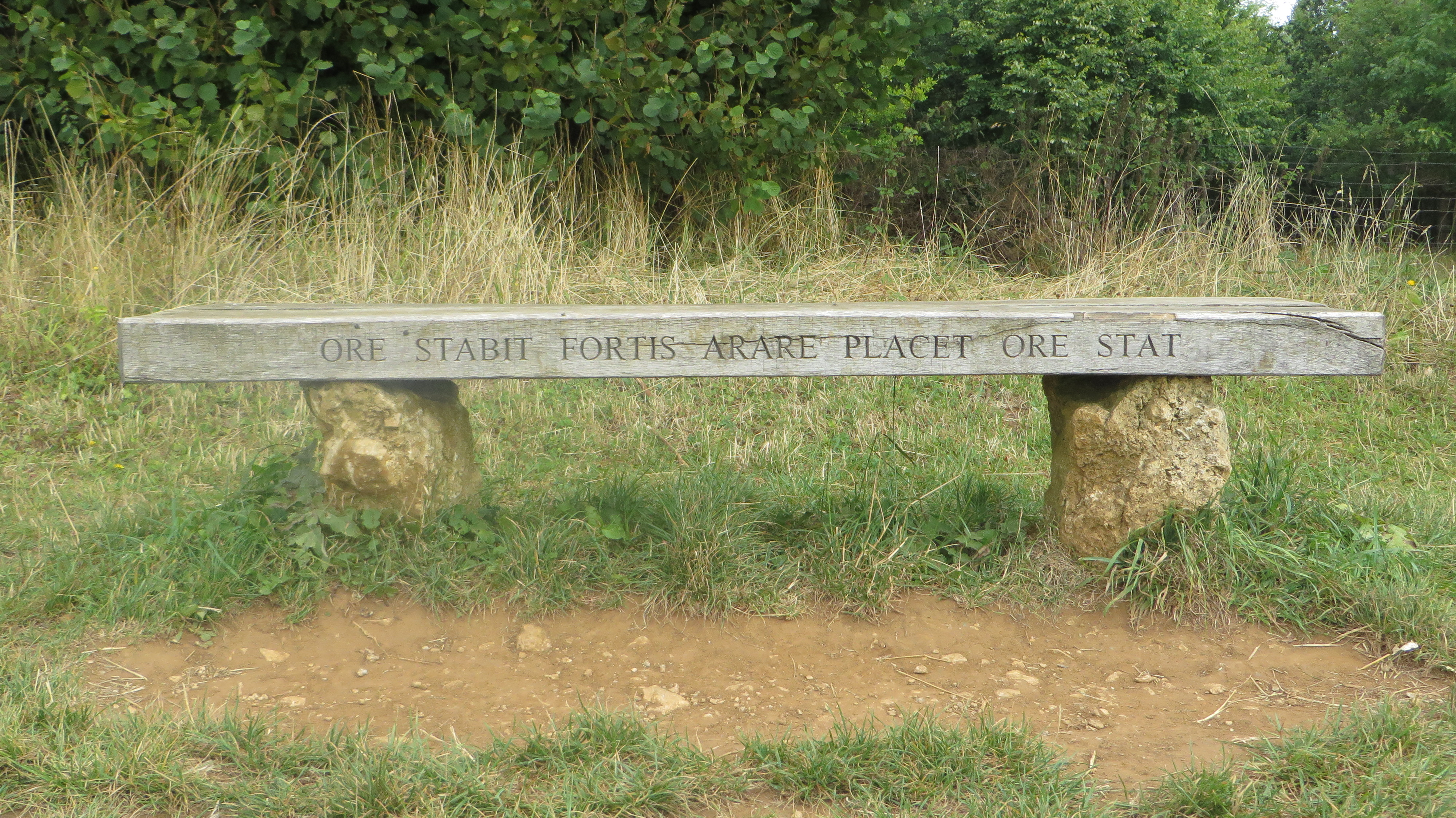 This is a bench at the Whispering Knights, Rollright Stones, in Oxfordshire UK. It bears a Dog Latin inscription.